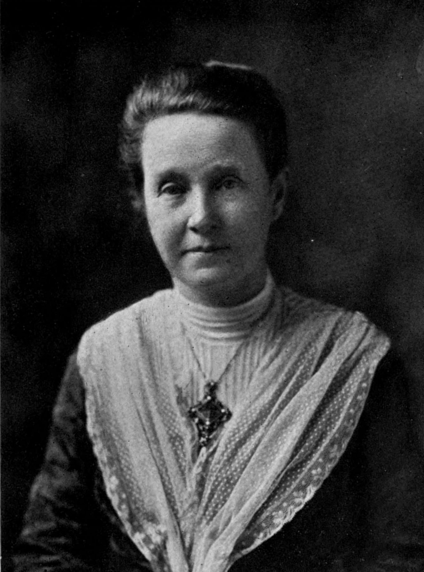 MRS. MILLICENT GARRETT FAWCETT OF LONDON, leader of the Constitutional Suffragists